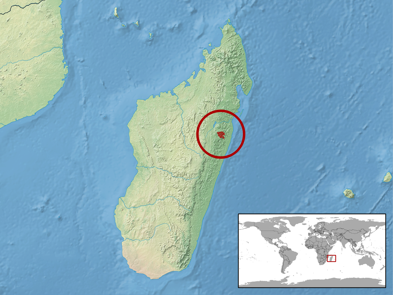 geographic distribution of Brookesia lambertoni (Native: Madagascar)